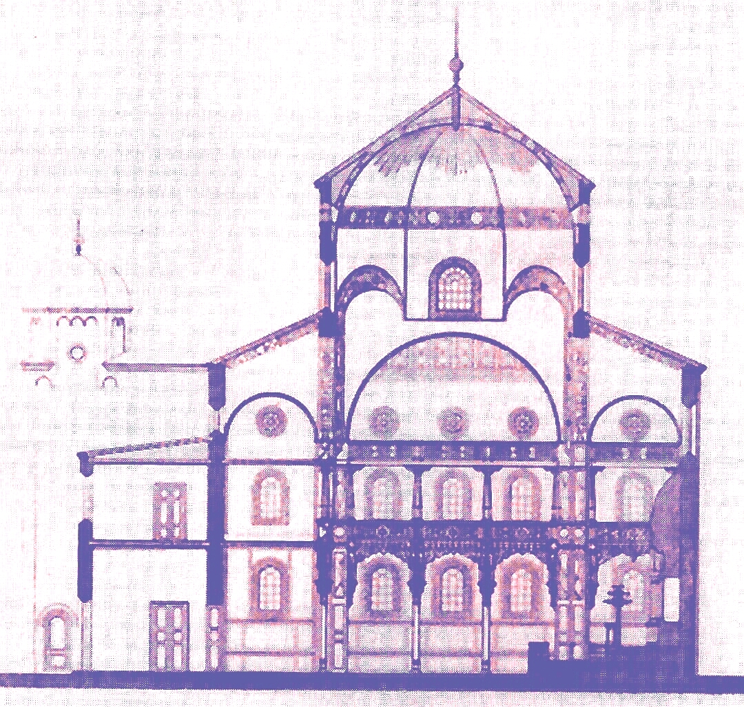 Alte Synagoge Dresden entworfen von Gottfried Semper